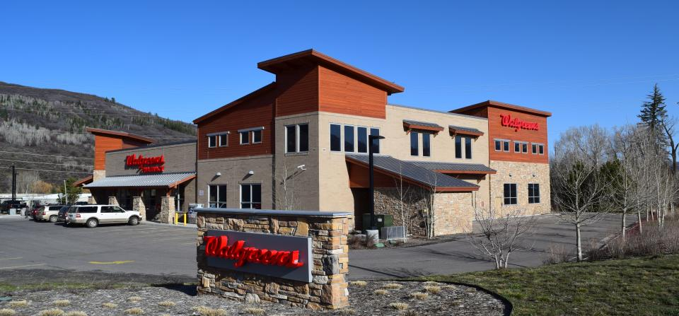 Walgreens, Steamboat Springs, CO.